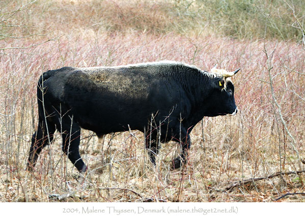 Heck cattle